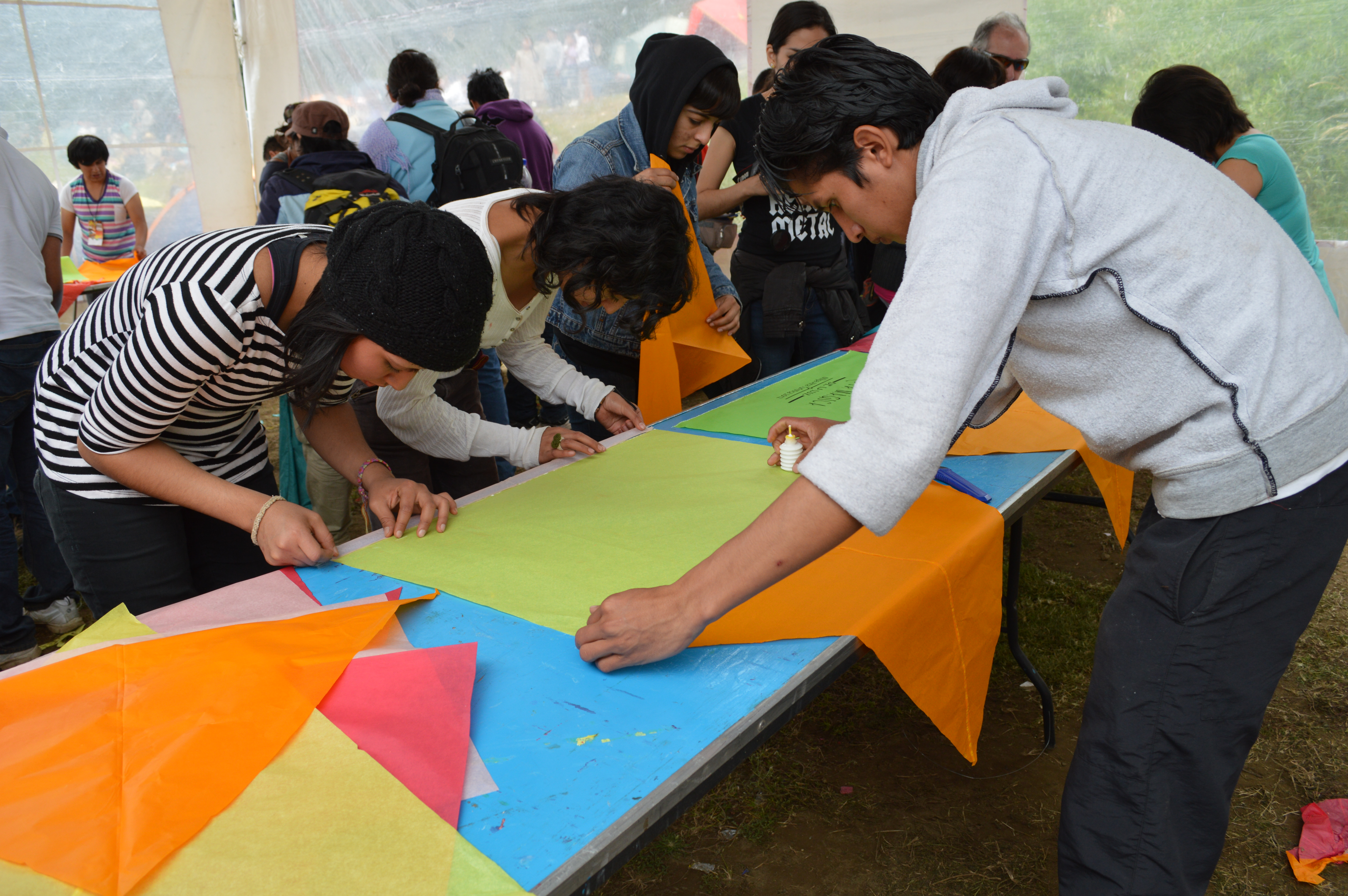 Making sky lantern at the Globos de Cantolla event in Milpa Alta, Mexico City